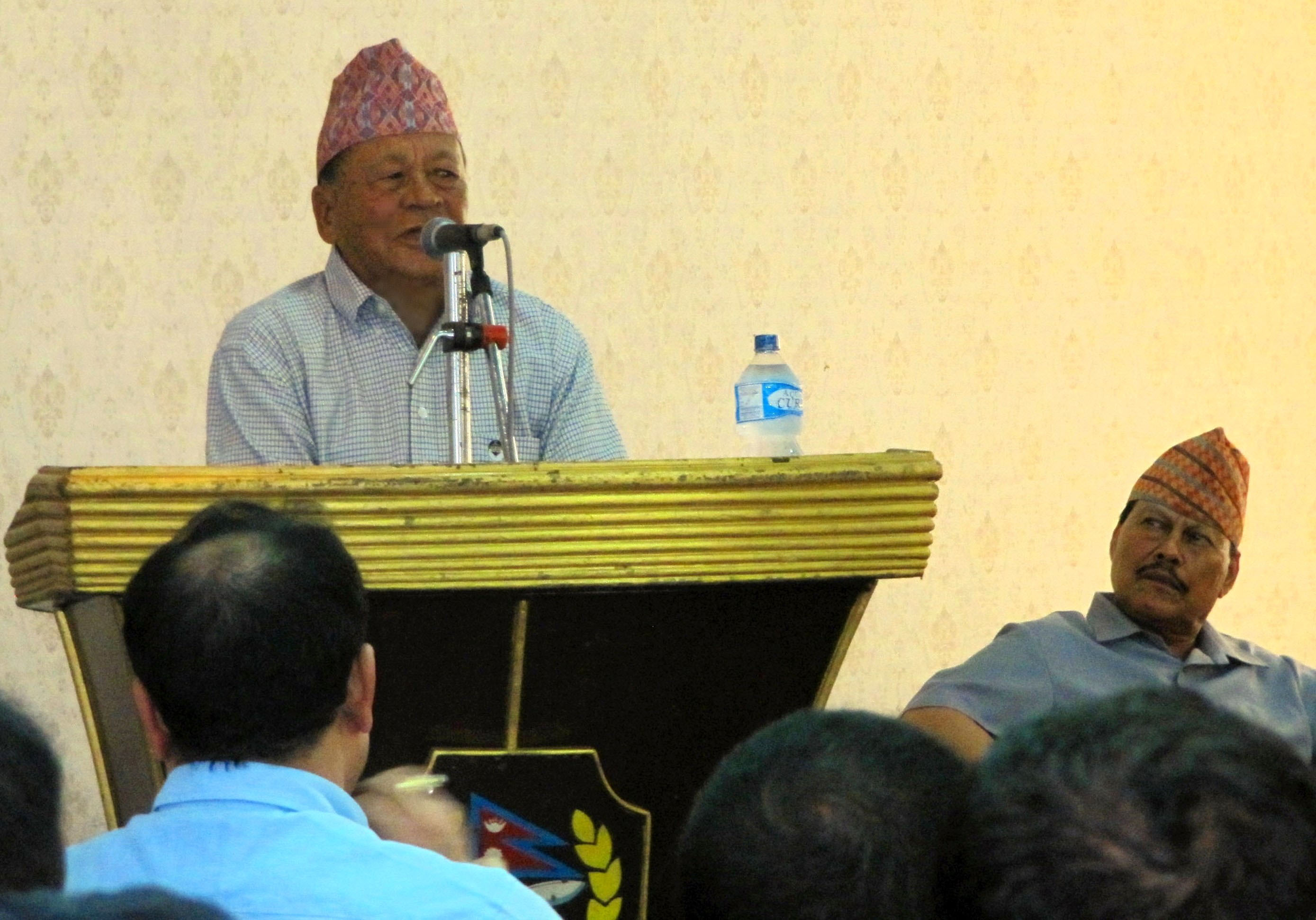 Former IGP Khadgajeet Baral briefing the press on the book's ("Kasauti ma Nepal Prahari") details during the book release in 2013.